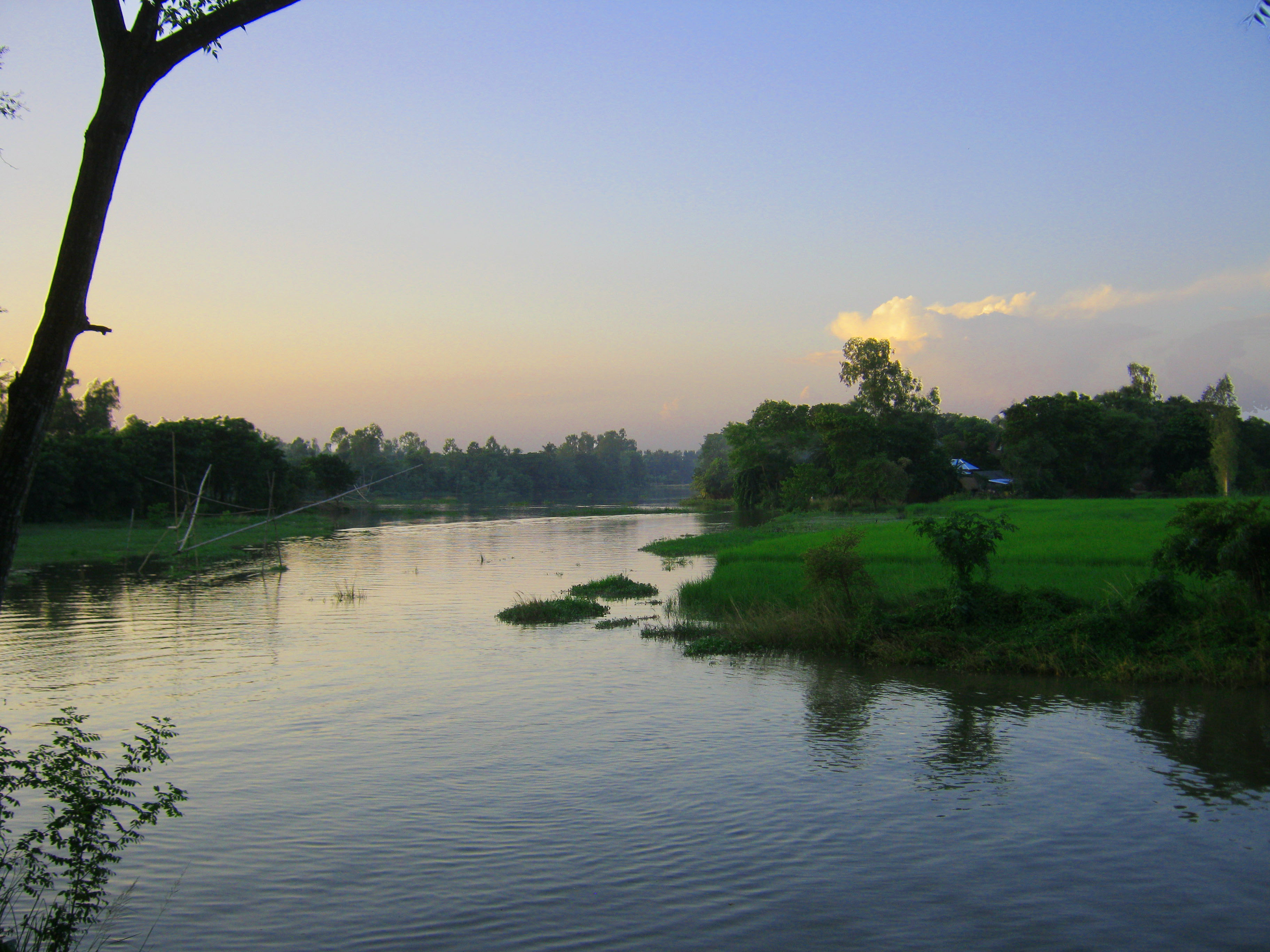 Sthapandighi, A Village of Singra, Natore